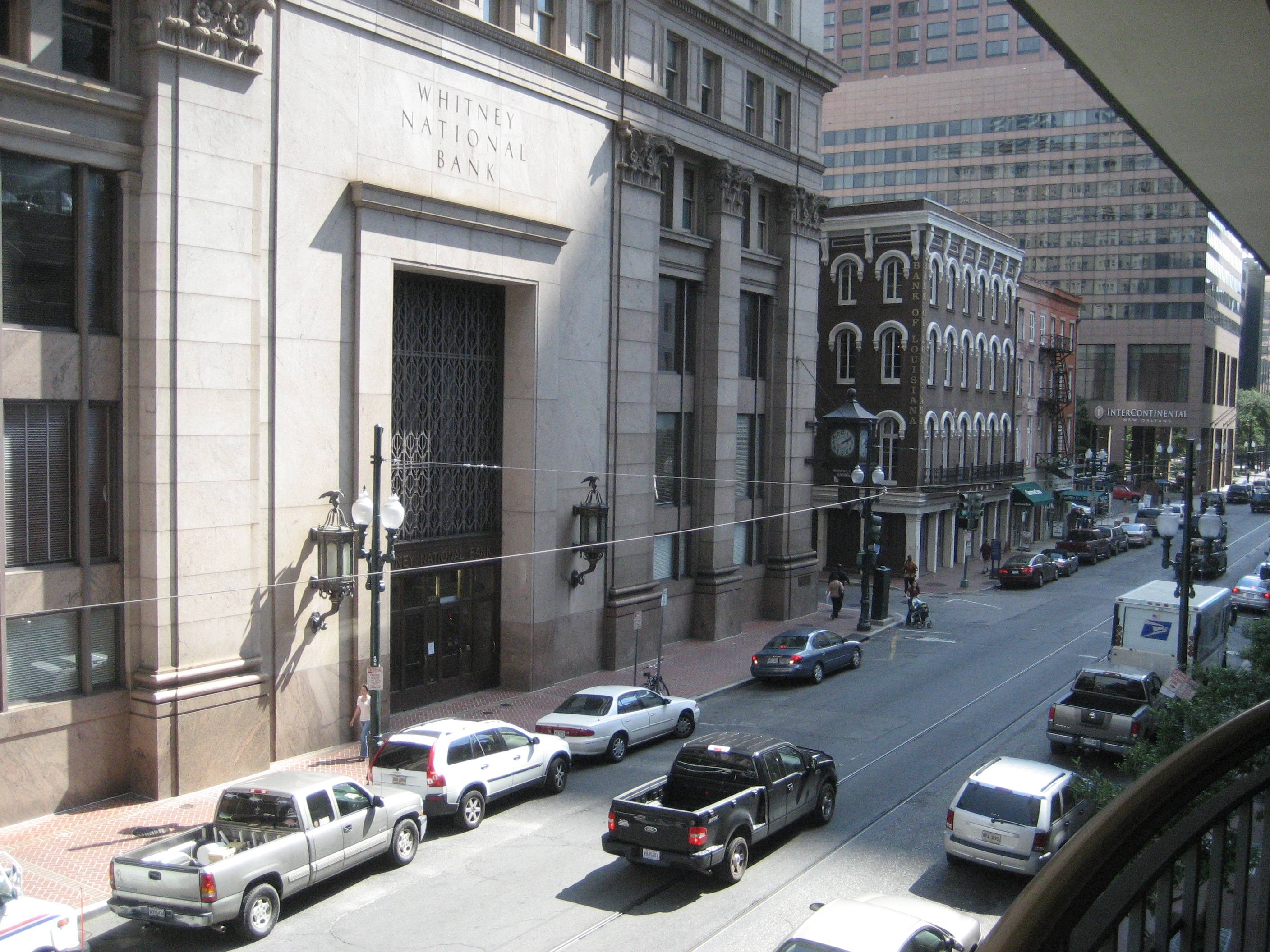 New Orleans: St. Charles Avenue looking upriver from 2nd floor of Place St. Charles. Whitney Bank main office building across the street at left.